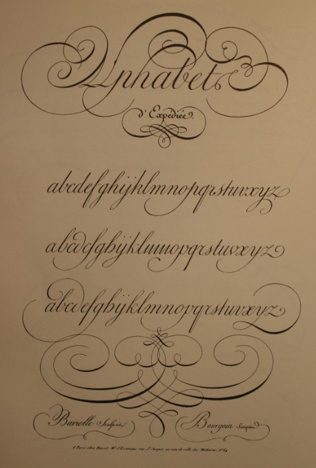 Calligraphy example